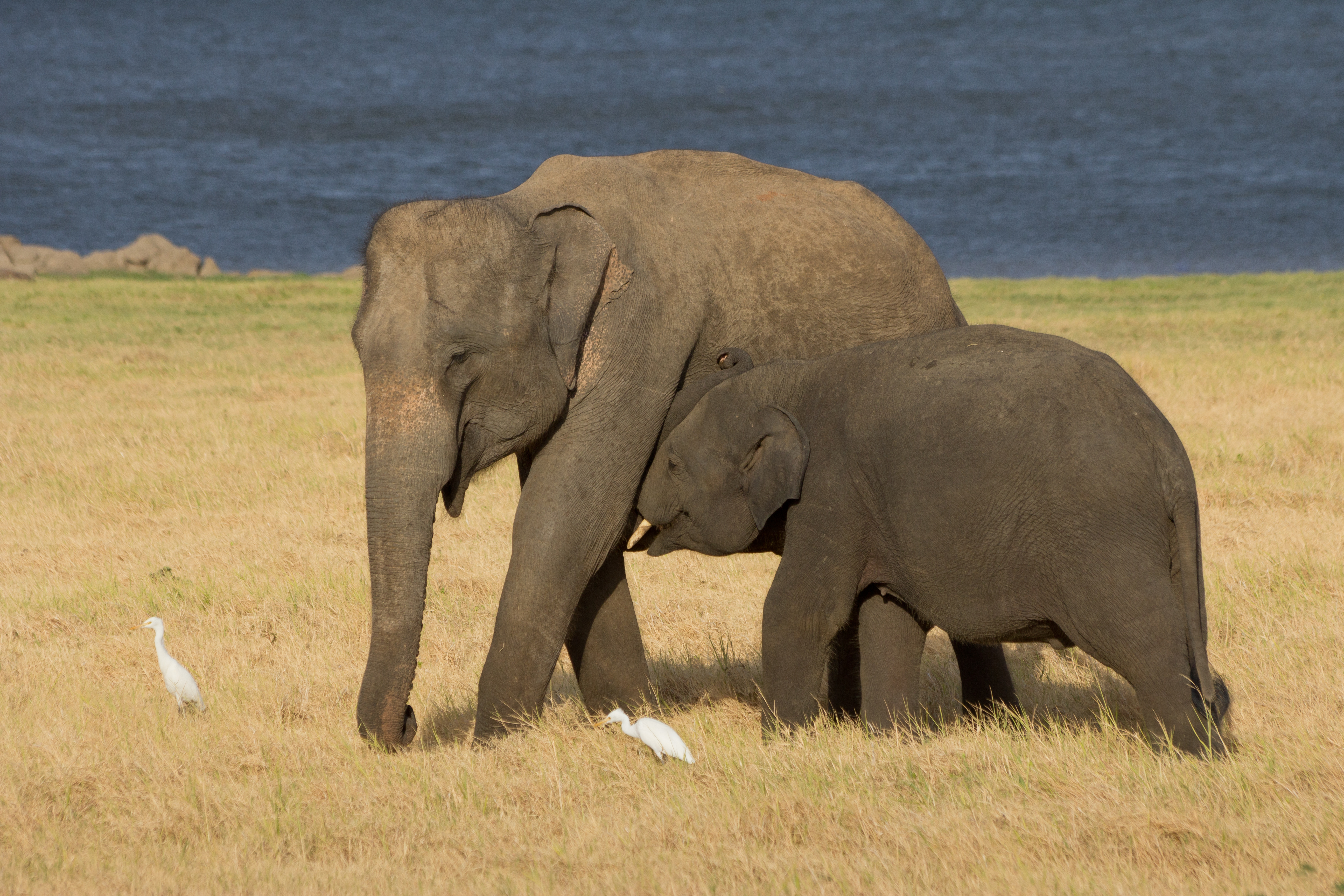 Wild Asian elephants (Elephas maximus maximus) in Minneriya National Park, Sri Lanka. The elephant calf is suckling. White birds wait for insects to jump scared by the elephants and then catch them. Sunda: Gajah liar Asia (Elephas maximus maximus) di Taman Nasional Minneriya, Sri Langka. Ménél keur nyusu ka indungna. Manuk bodas nungguan serangga anu haliber/ngagajleng kagebah ku gajah.